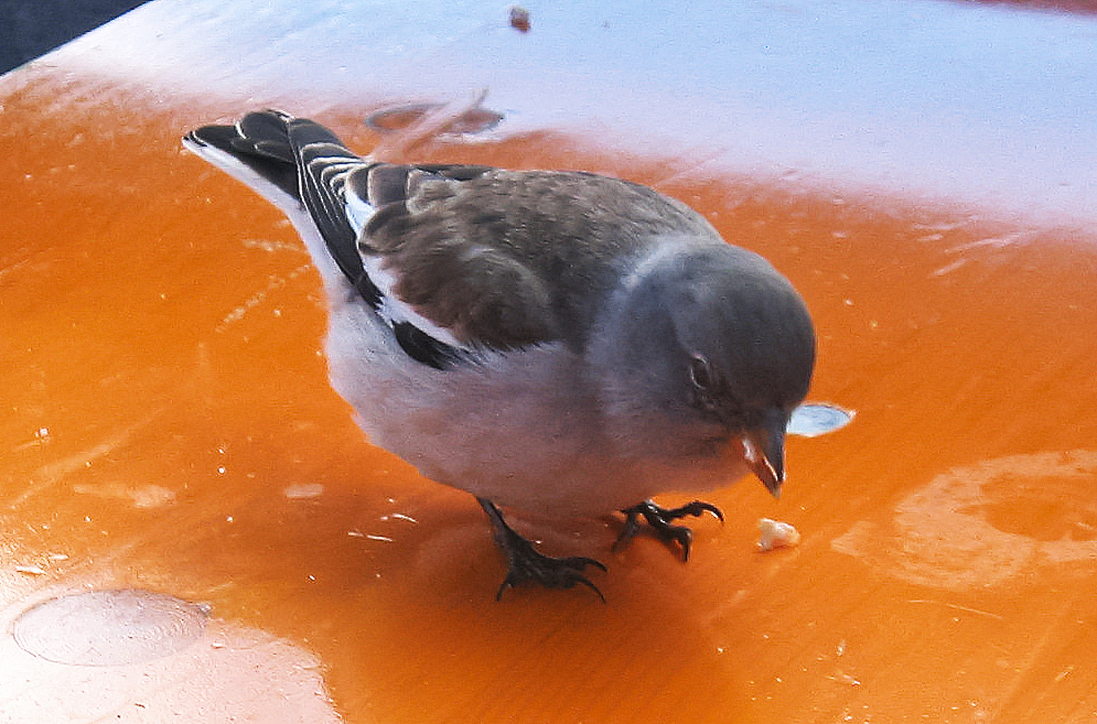 Montifringilla nivalis (snow finch), photographed in the Dolomites